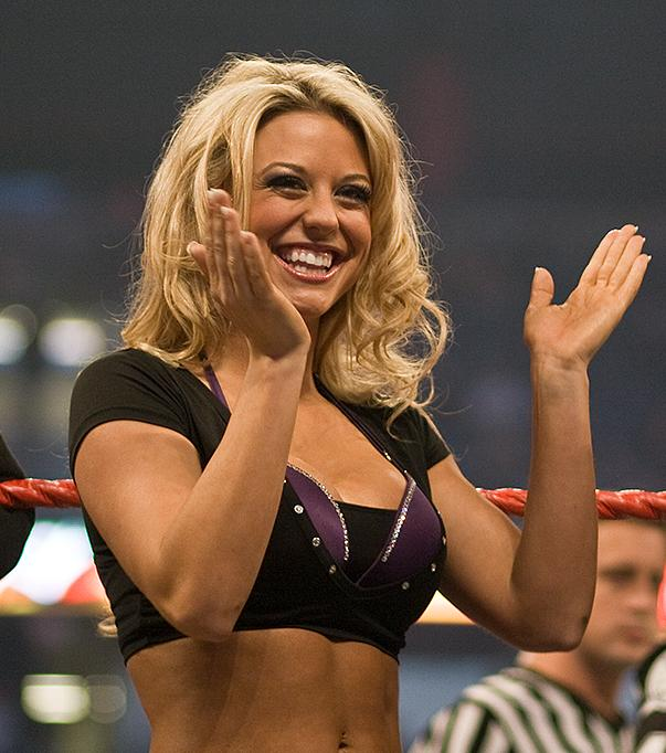 Taryn Terrell/Tiffany, Divas WWE Monday Night Raw 800th Tampa